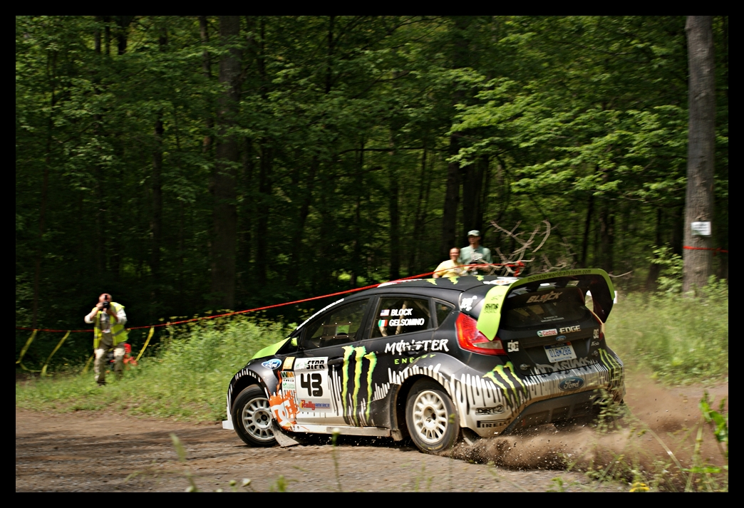 Ken Block' and co-driver Alex Gelsomino in their 2009 Ford Fiesta at the 2010 Susquehannock Trail Performance Rally in Pennsylvania. Round 5 of the 2010 Rally America National Championship.